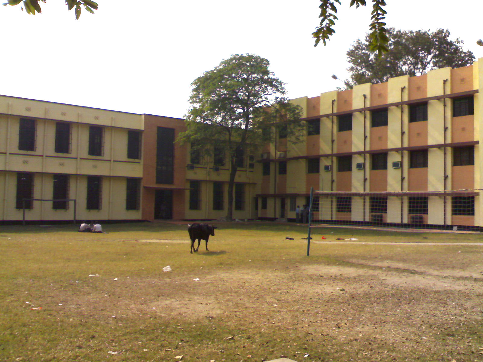 CSE,IT departments,mechanical workshop of GCETTS